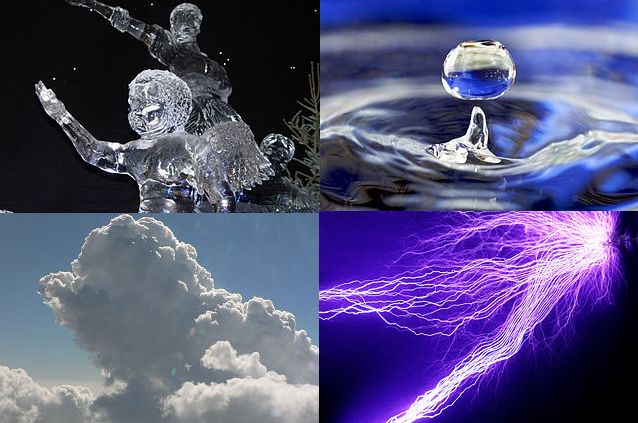 This file was created using other photos that are available on Wikimedia commons. I made this file to Illustrate the Four Fundamental States of Matter: Solid, Liquid, Gas, and Plasma. In reality clouds are comprised of suspended particles of liquid water; water vapor is an invisible gas. To make this file I used File:Ice cherubs.jpg, File:Water drop 001.jpg, File:Wolkentoren.JPG, and File:225W Zeus Tesla coil - arcs2 (cropped).jpg.